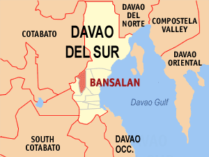 Map of the Davao del Sur showing the location of Bansalan